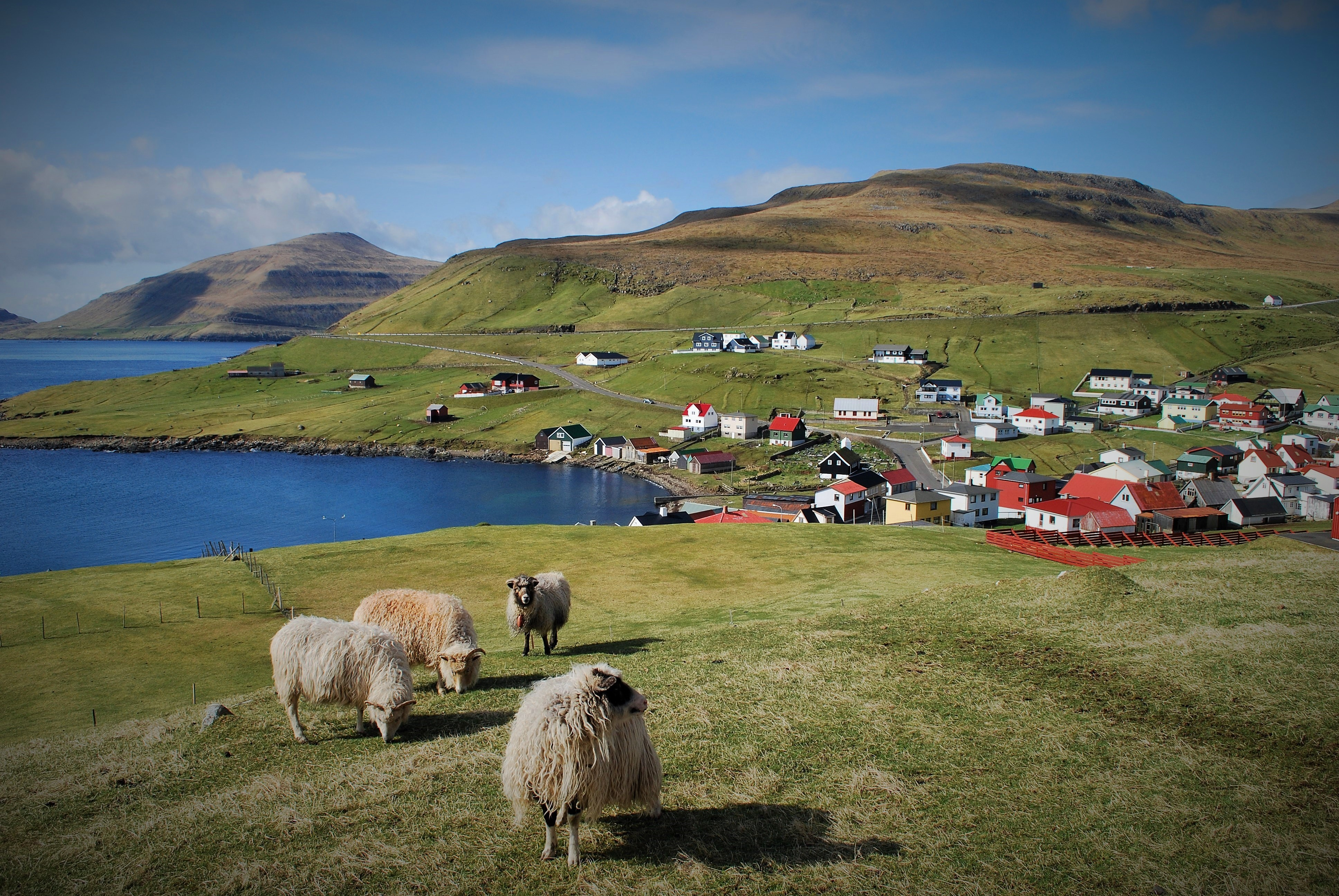 Porkeri, Suðuroy, Faroe Islands